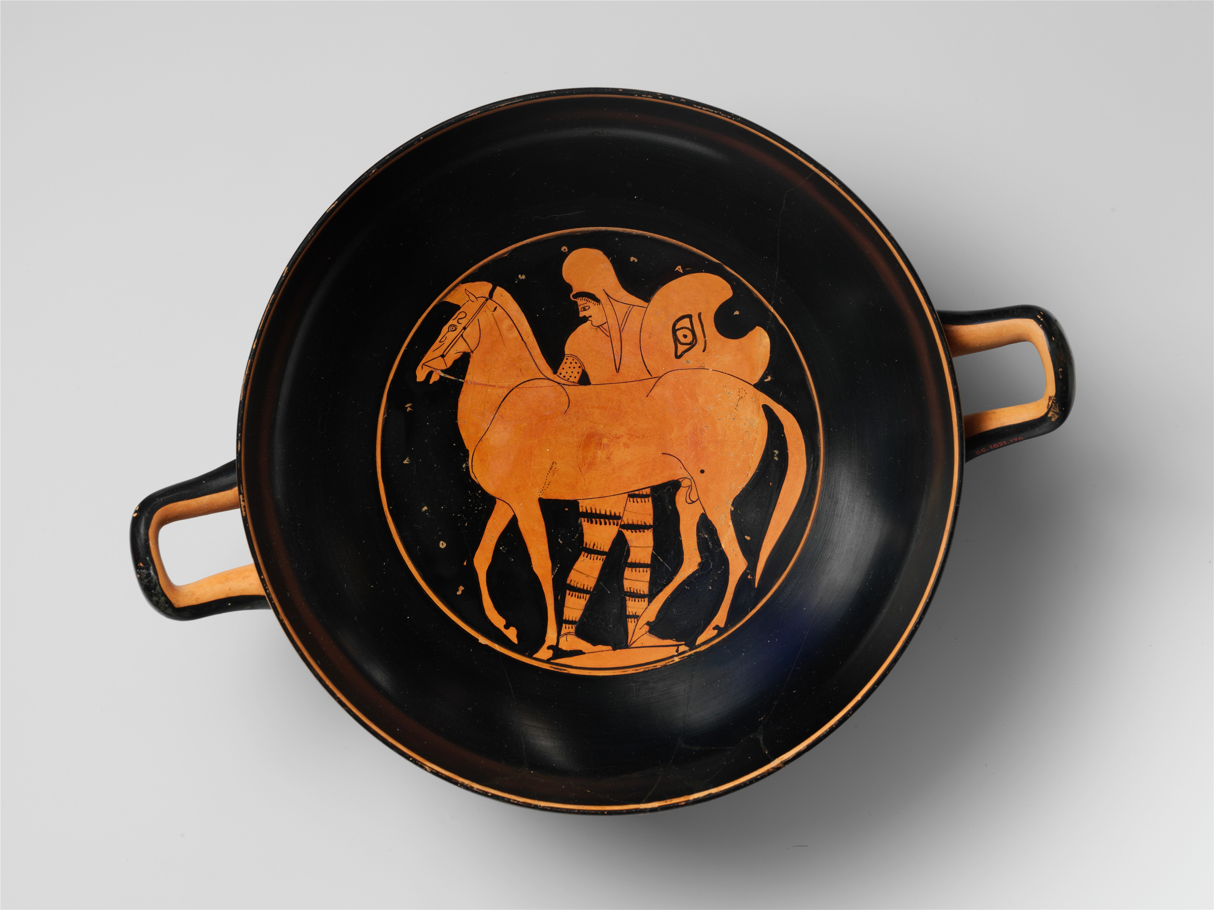 Greek, Attic; Kylix, Type B; Vases